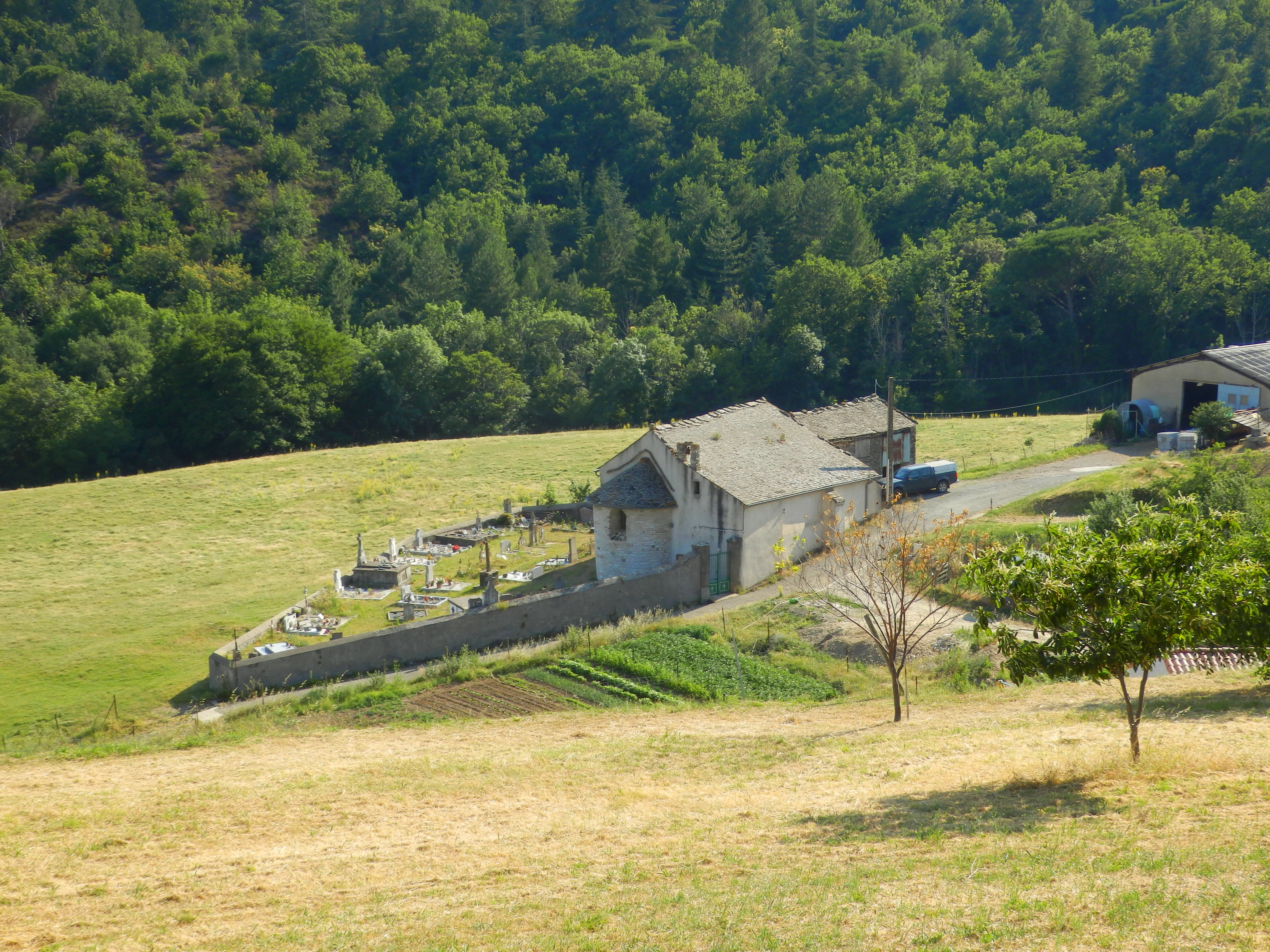 Church and cemetery in Cassagnoles, Hérault, France